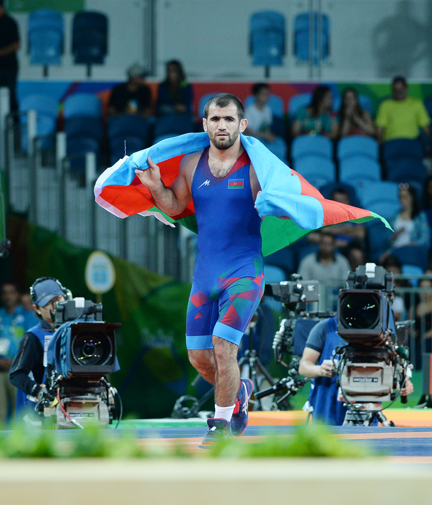 Wrestling at the 2016 Summer Olympics, Hasanov vs Abdurakhmonov